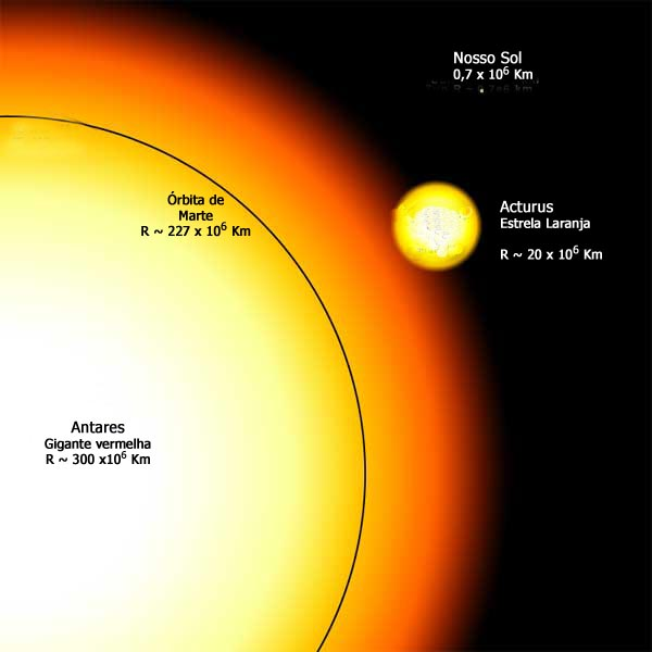 The biggest star that is known to exist. Comparison between the red supergiant Antares and the Sun, shown as the tiny dot toward the upper right. The black circle is the size of the orbit of Mars. Arcturus is also included in the picture for size comparison